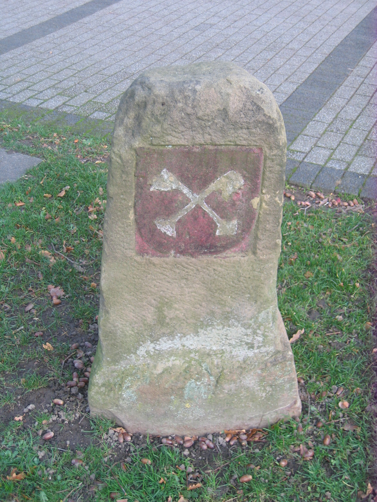 Boundary stone between Minden and Ravensberg in the spa garden in Bad Oeynhausen, District of Minden-Lübbecke, North Rhine-Westphalia, Germany.